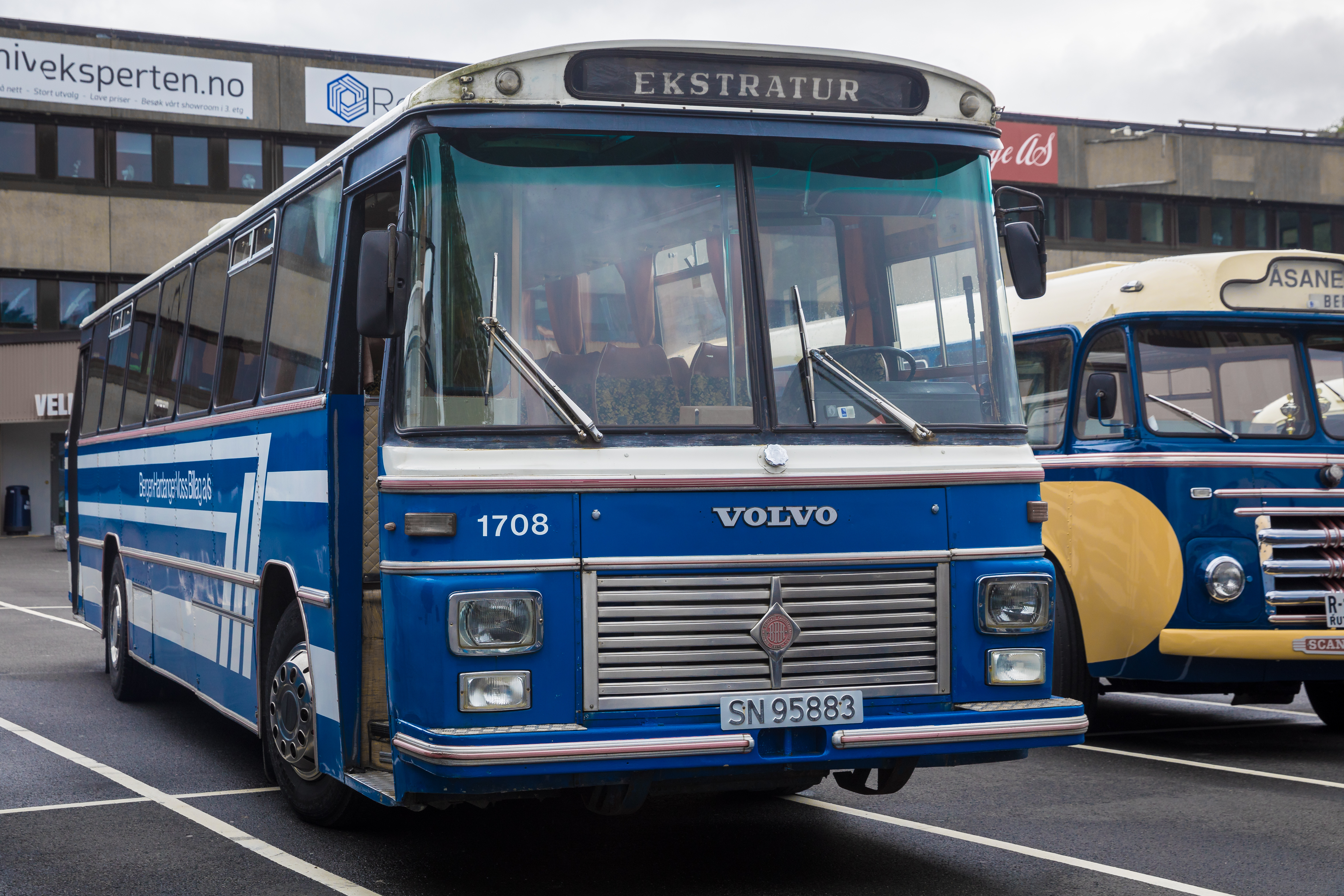 Vintage vehicles at Fjordsteam 2018. The maritime heritage festival took place between August 2 and August 5 2018 in Bergen, Norway.